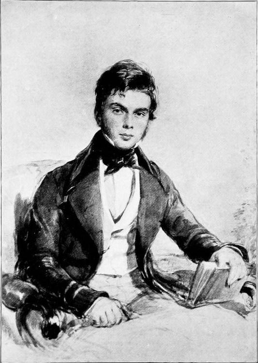 Portrait of William Dougal Christie, (1816–1874), Scottish diplomat, politician, and man of letters.